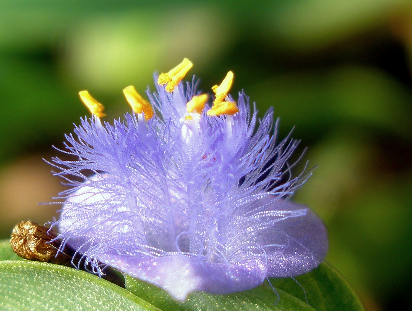 Cyanotis cristata flower